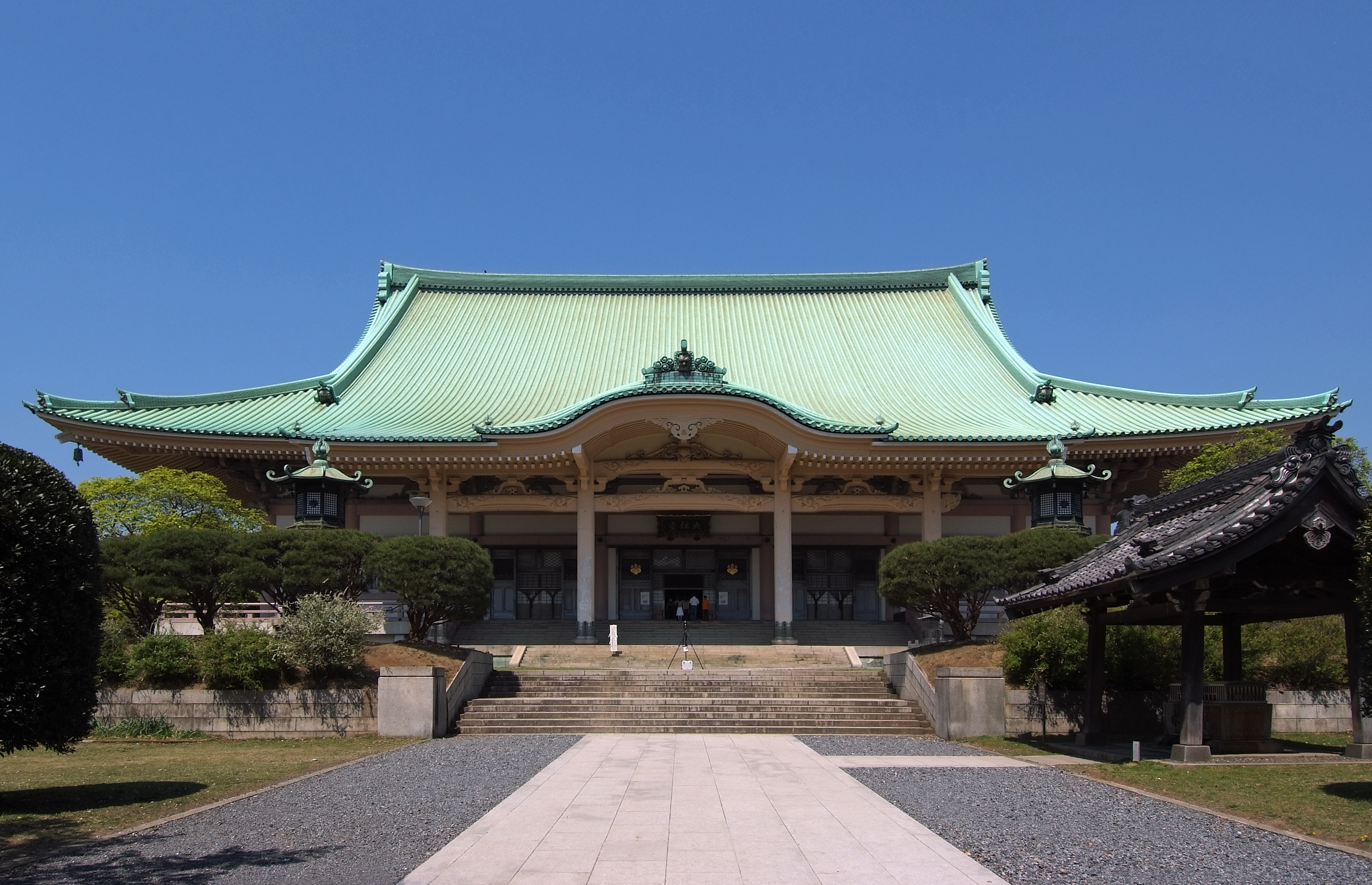 Sōjiji Daisodo, Tsurumi-ku Yokohama Japan.